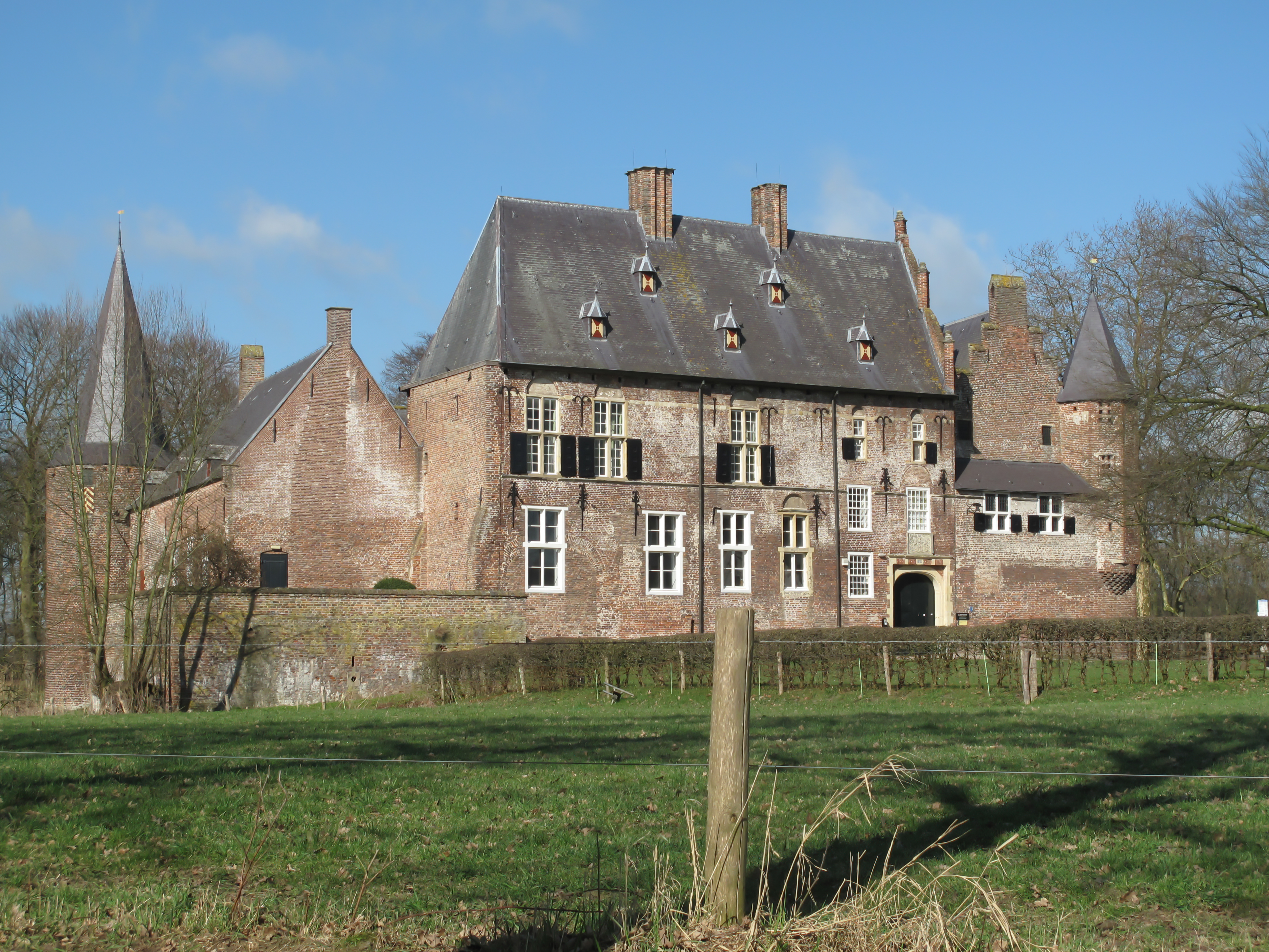 Hernen, castle: kasteel Hernen